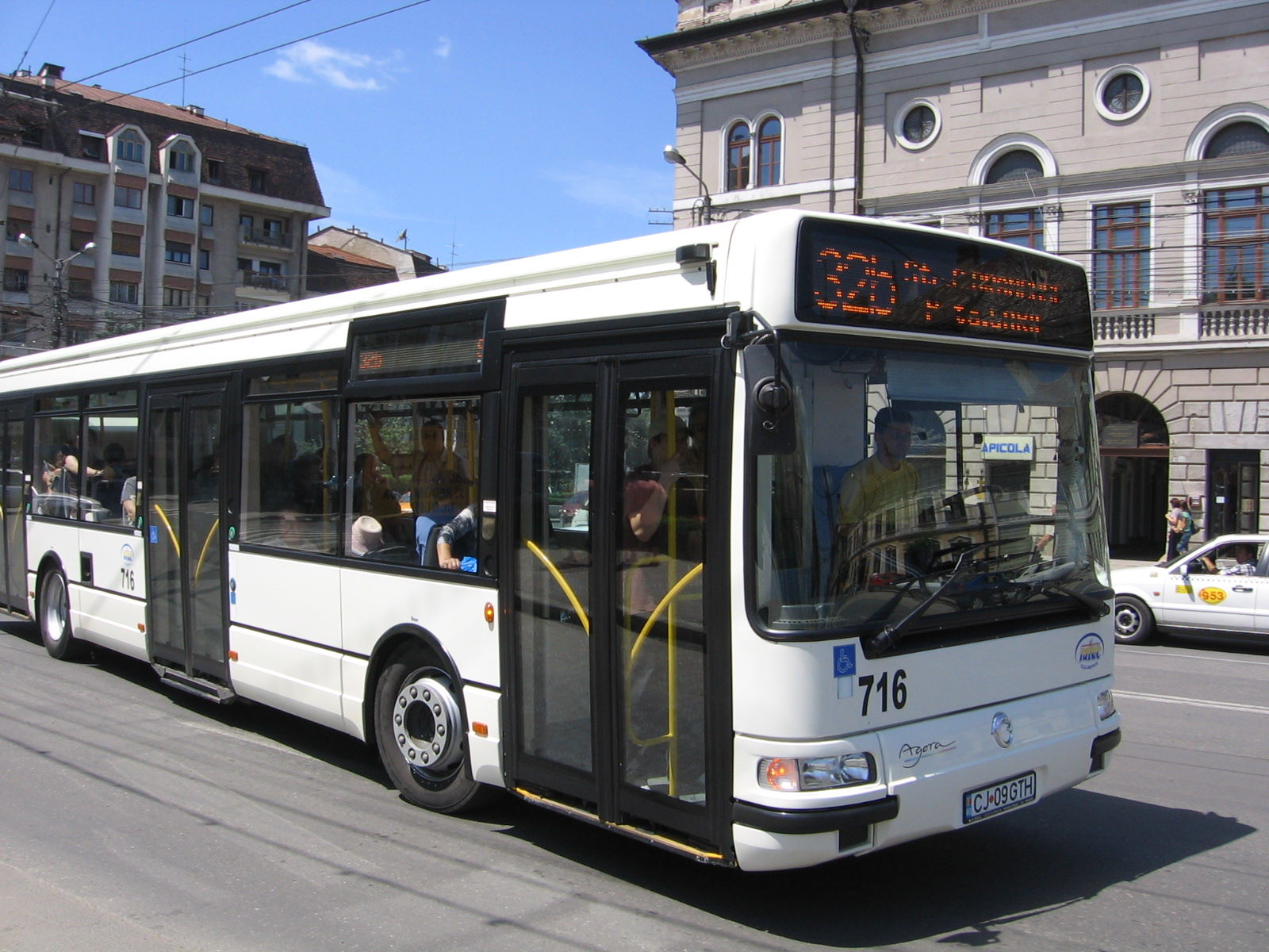 Bus Irisbus in Cluj-Napoca